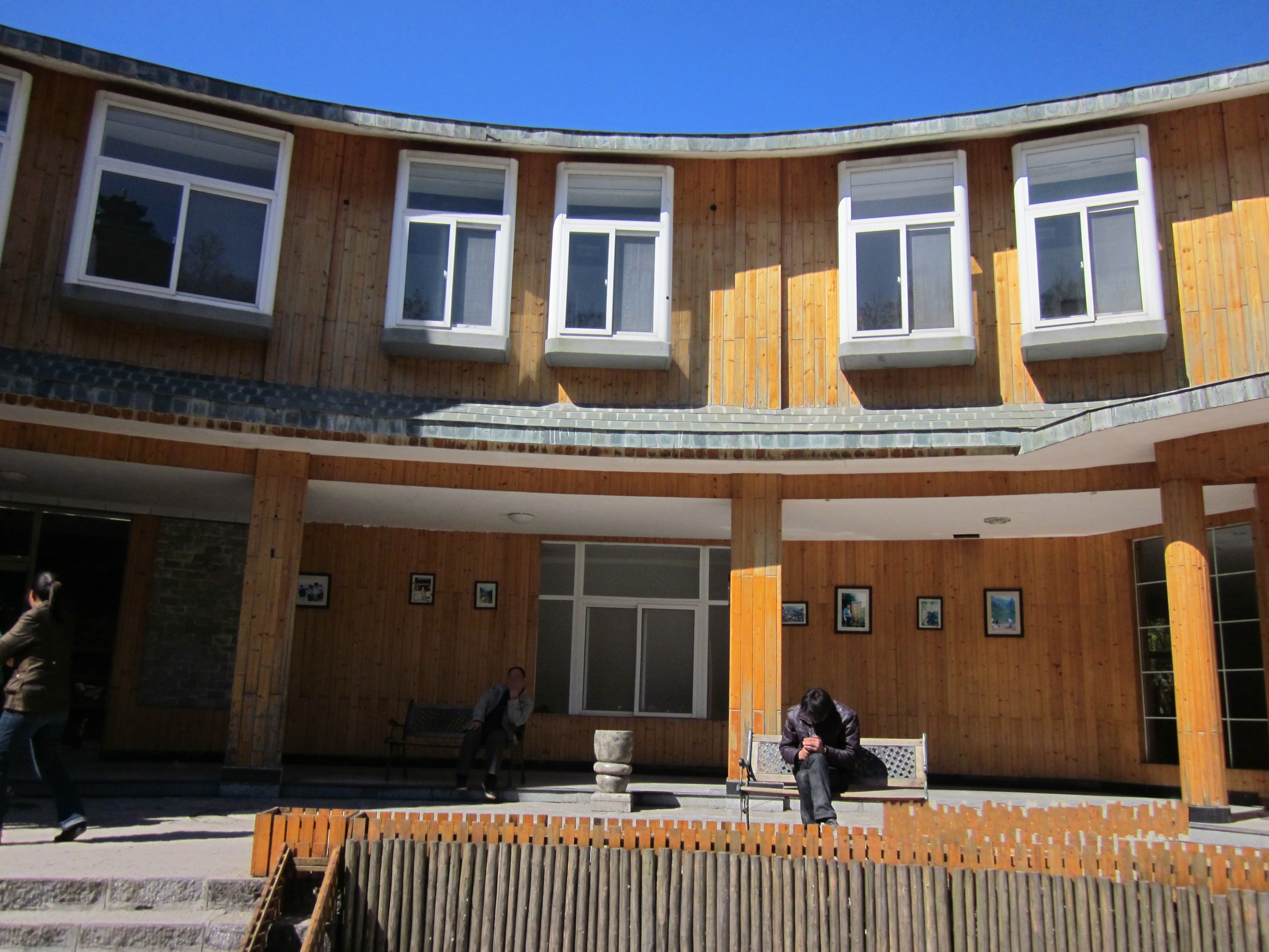 Tian Menshan Mountain,Zhangjiajie famous mountains, national forest park. This picture shows the Lina Villas.